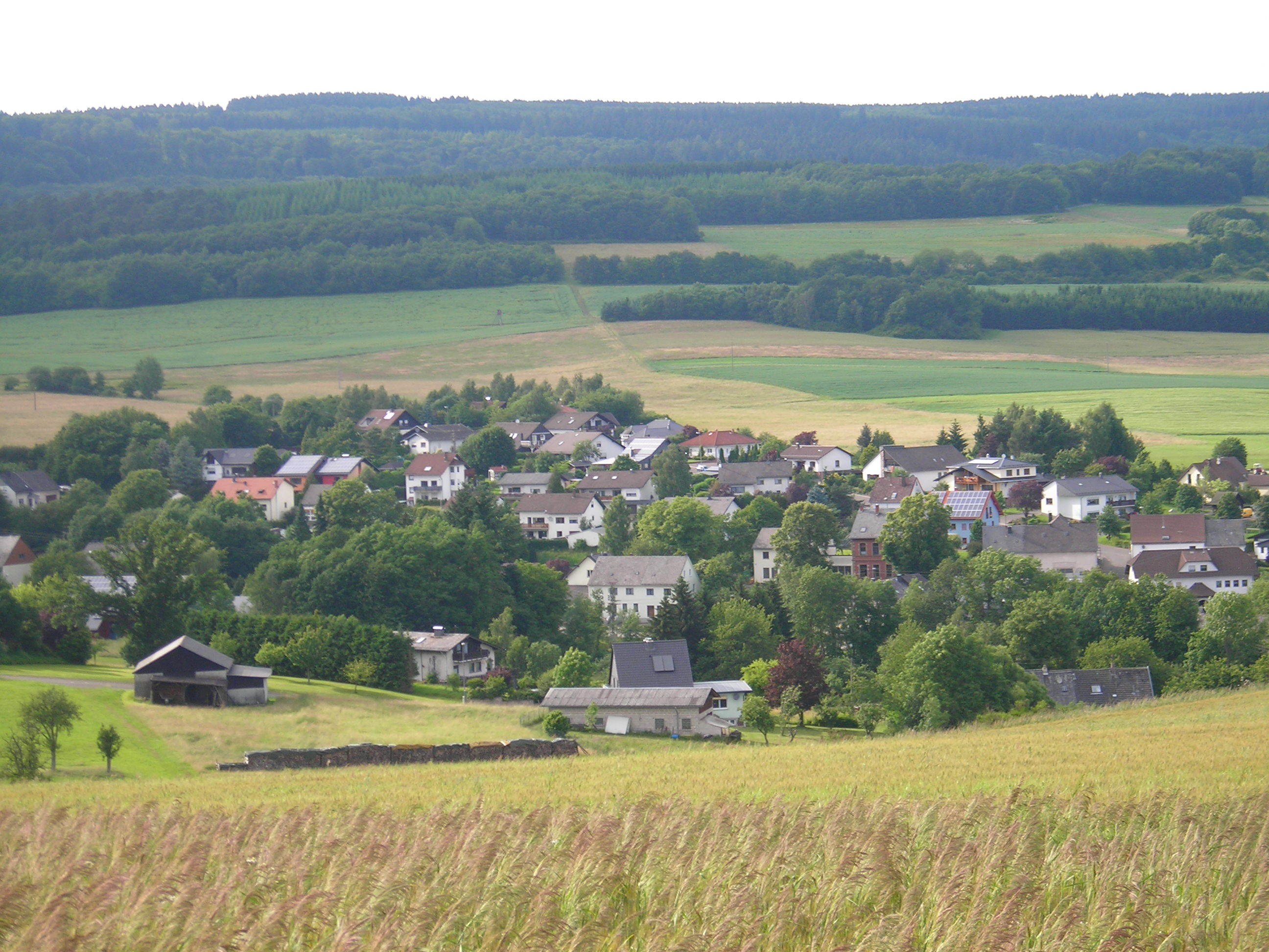 Village Schwollen, Hochwald